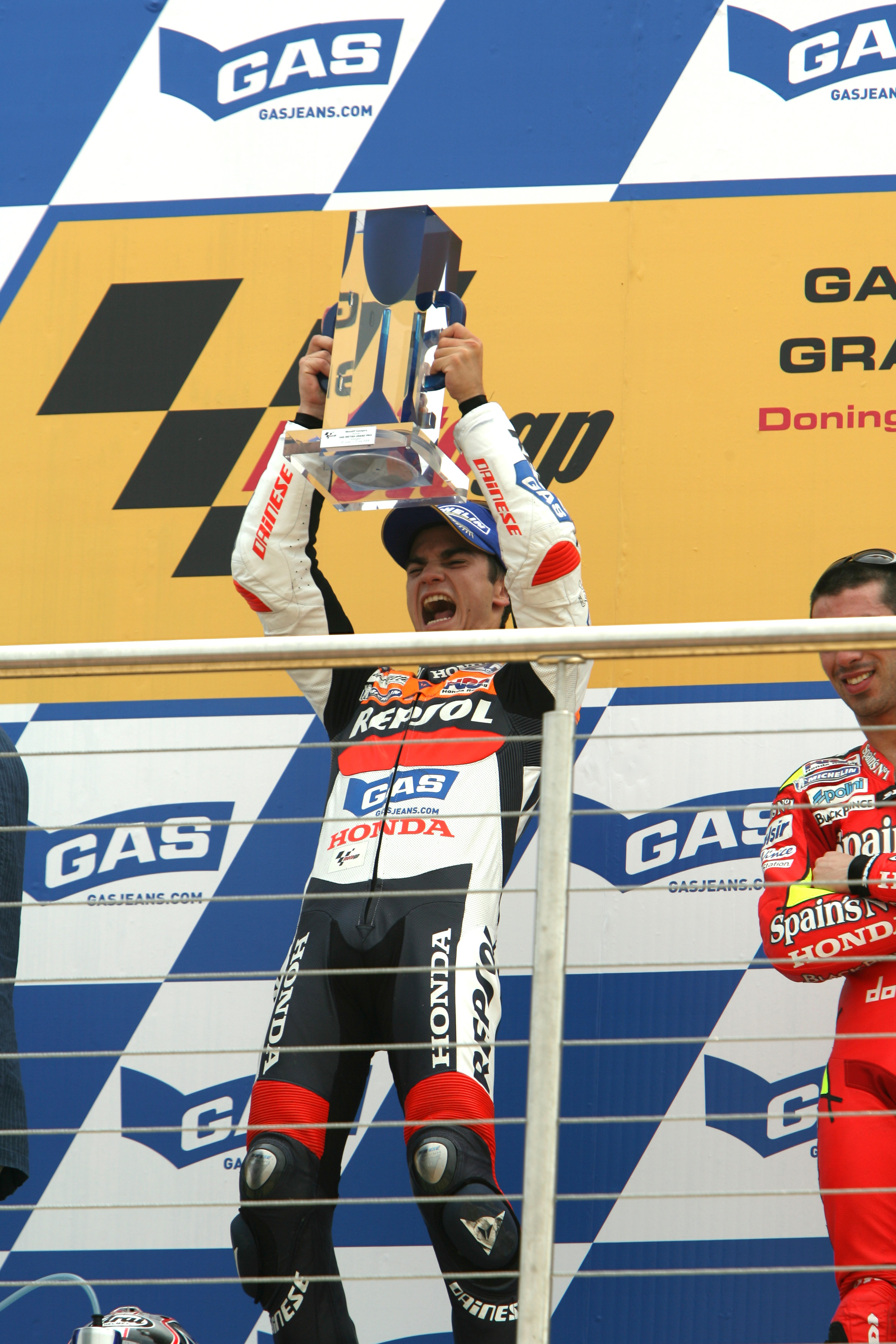 Dani Pedrosa, celebrating on the podium after winning the 2006 British Grand Prix.